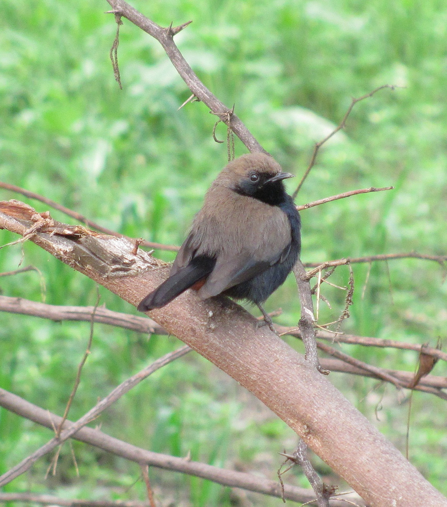 Saxicoloides fulicatus, male; Bhindawas bird sanctuary, Jhajjar, Haryana, India.